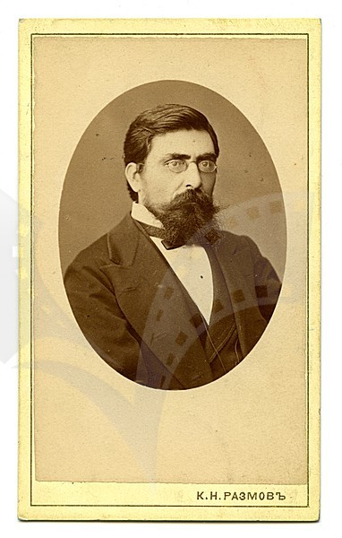 Ivan Kasabov